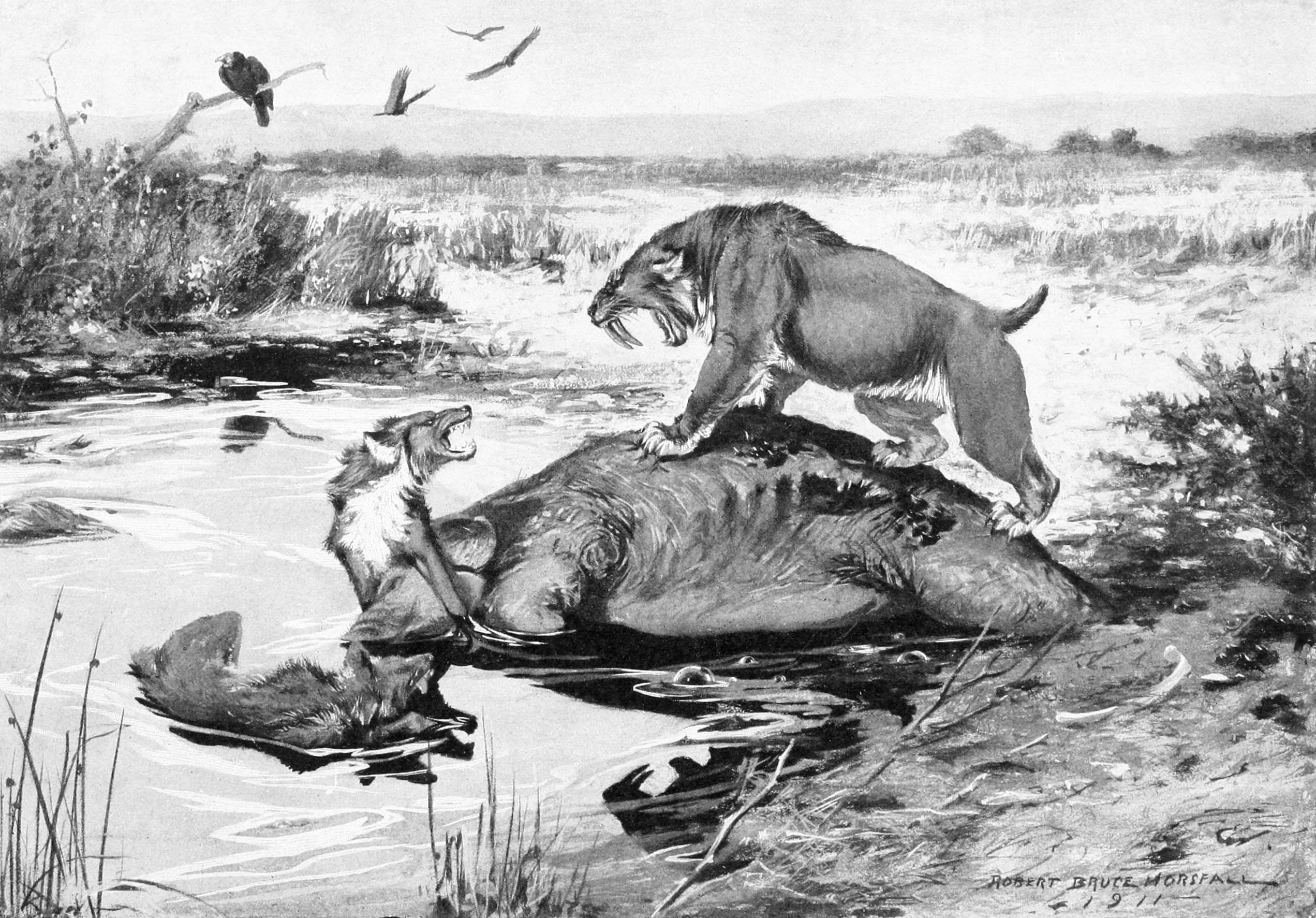 Smilodon californicus and Canis dirus fight over a Mammuthus columbi carcass in the La Brea Tar Pits.